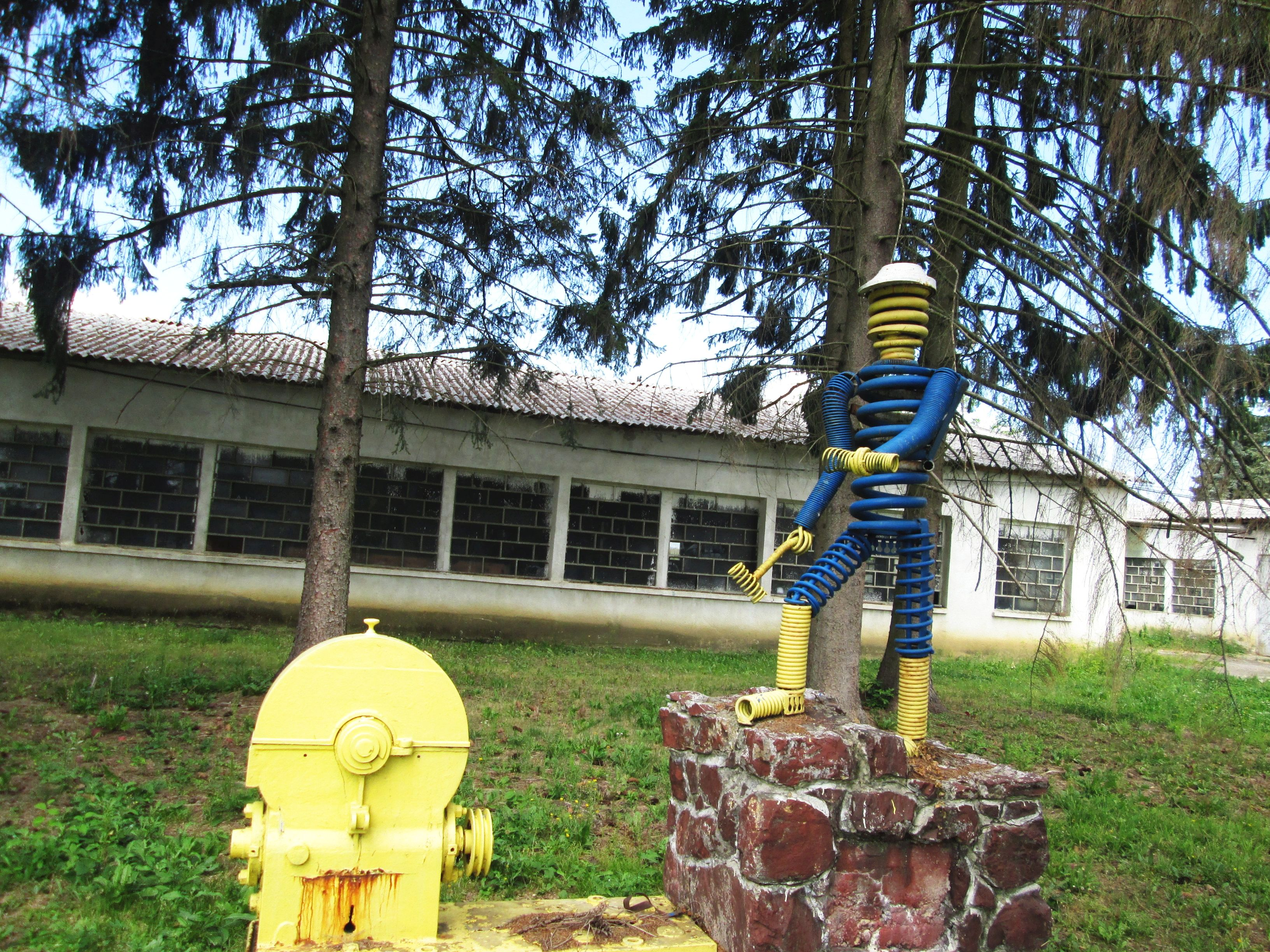 Sculpture in front of ex factory Fenor, Nova Rača, Croatia